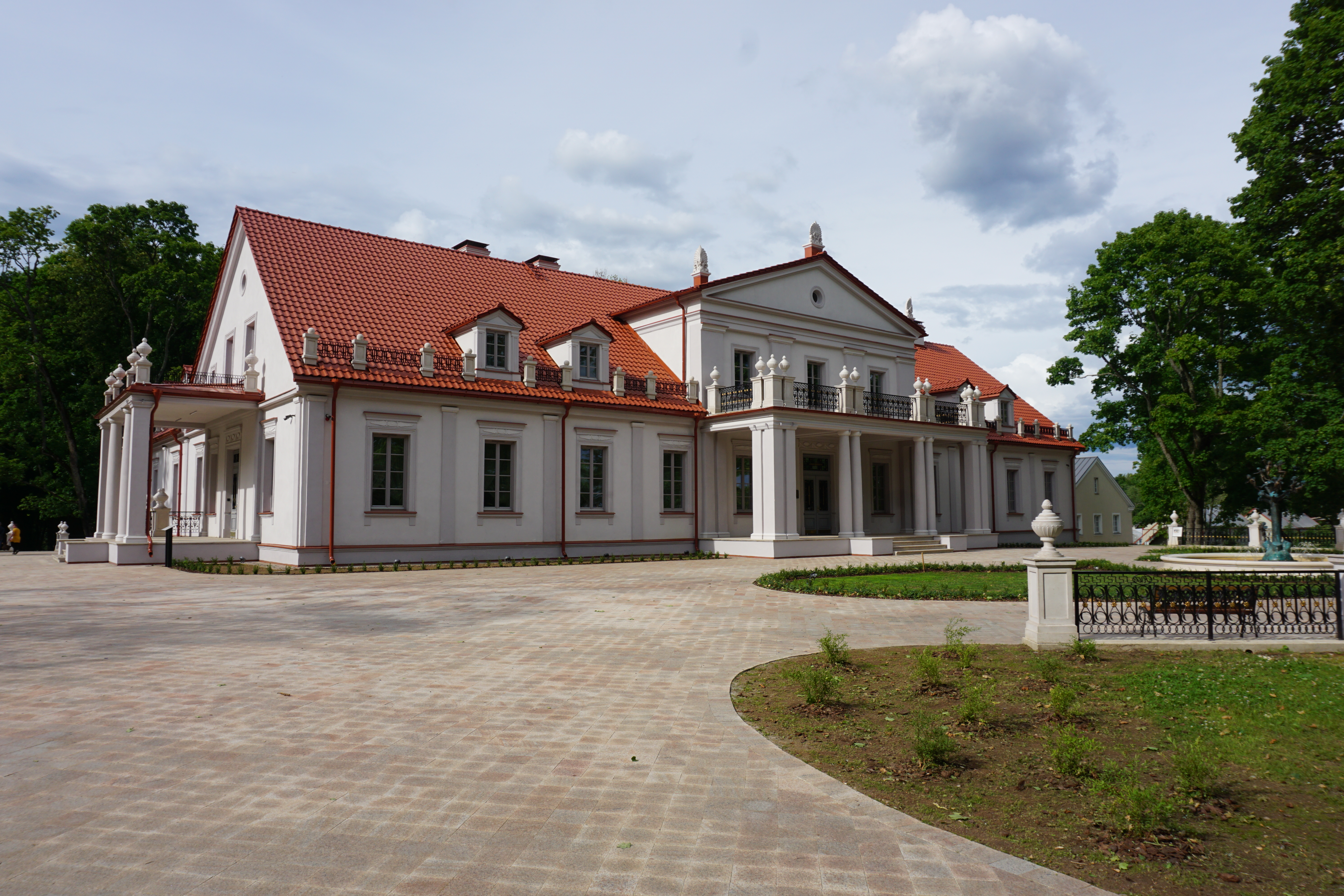 Ilzenbergas Manor, Rokiškis District Municipality, Lithuania, 2018